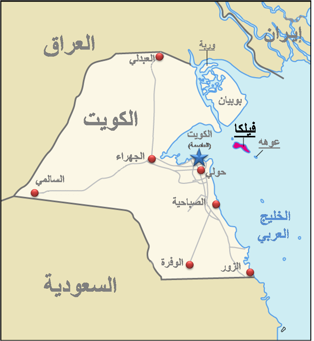 A translated version of (Failaka. Islands of Kuwait (Lithuanian version))